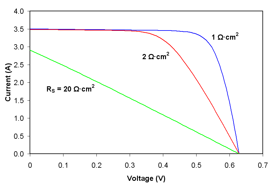 Solar cell I-V curve as a function of specific series resistance.